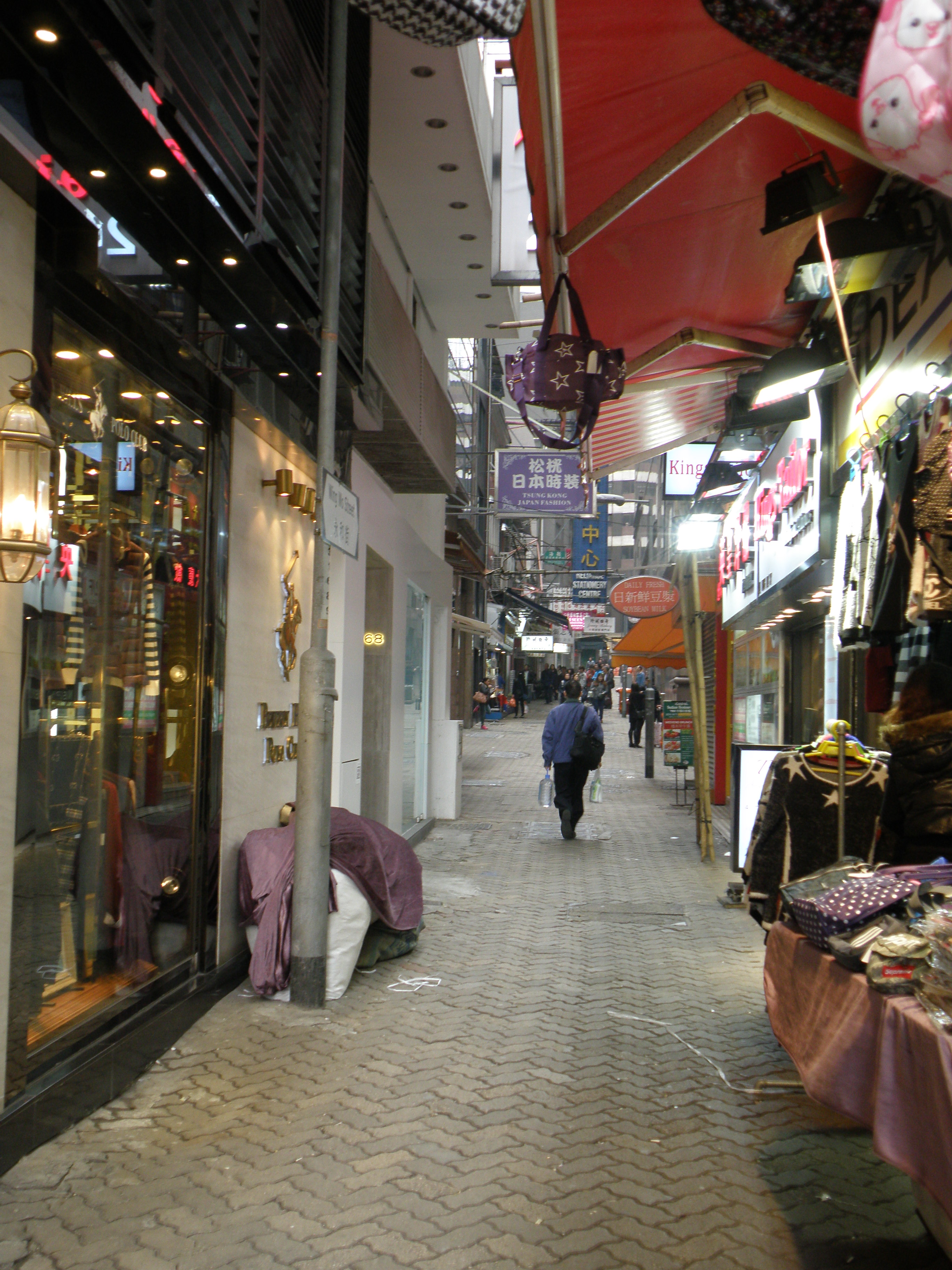 Wing Wo Street in Sheung Wan, Hong Kong.